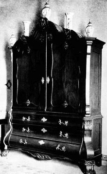 A large (height 270 cm, width 220 cm, depth 72 cm) rococo cabinet made at the Cape of Good Hope (1780-1790) with silver handles and escutcheons by Daniel Heinrich Schmidt. The cabinet is in the main bedroom of Koopmans-de Wet House in Cape Town.